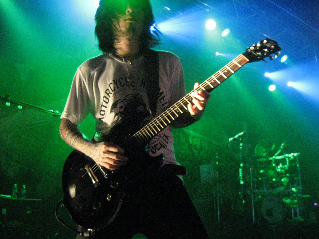 Guitarist Kaoru of Dir en grey performing in the United States in 2008.